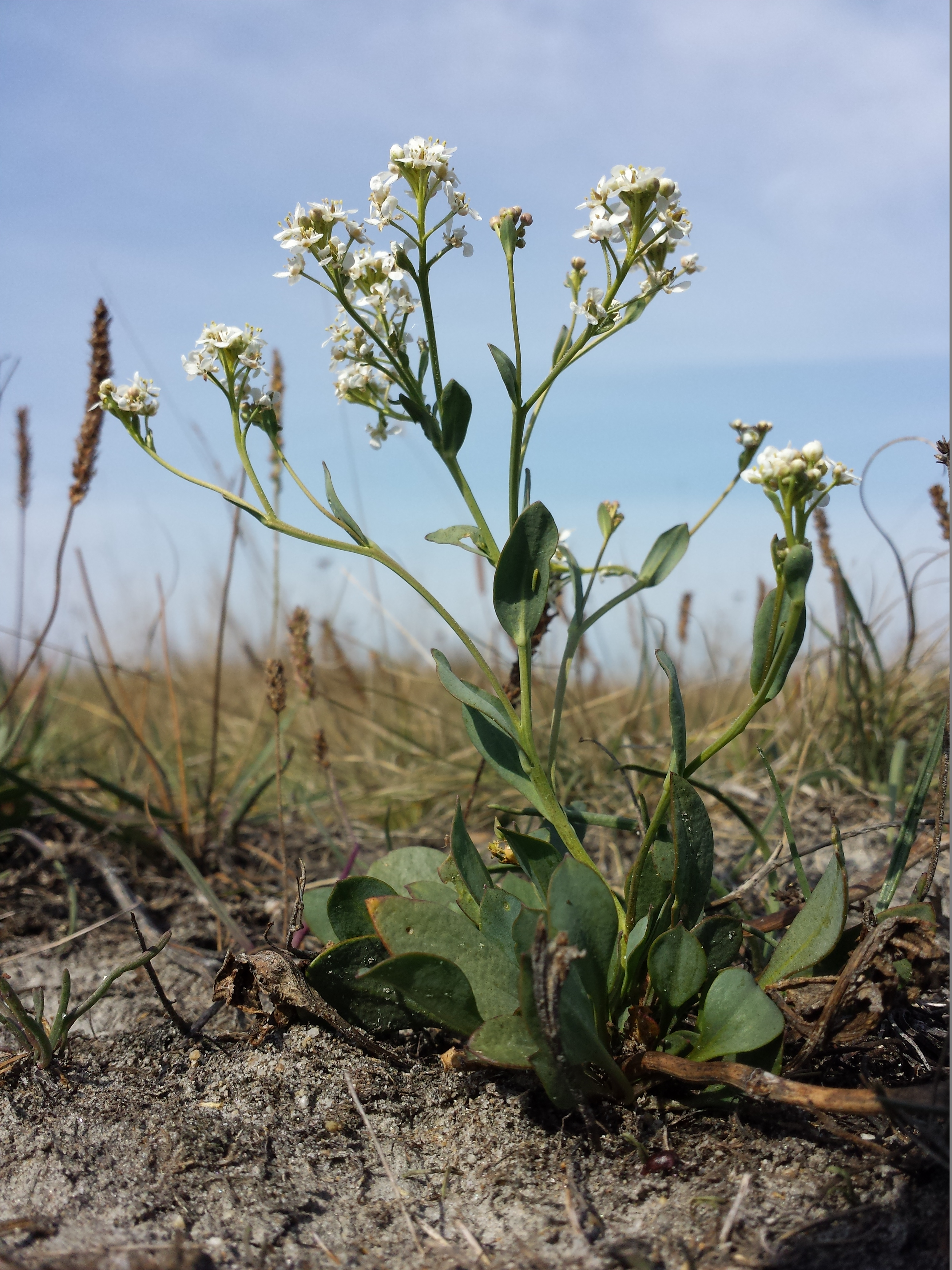 Habitus Taxonym: Lepidium cartilagineum ss Fischer et al. EfÖLS 2008 ISBN 978-3-85474-187-9 Location: near Darscho/Apetlon, district Neusiedl am See, Burgenland, Austria - ca. 120 m a.s.l. Habitat: salt meadow